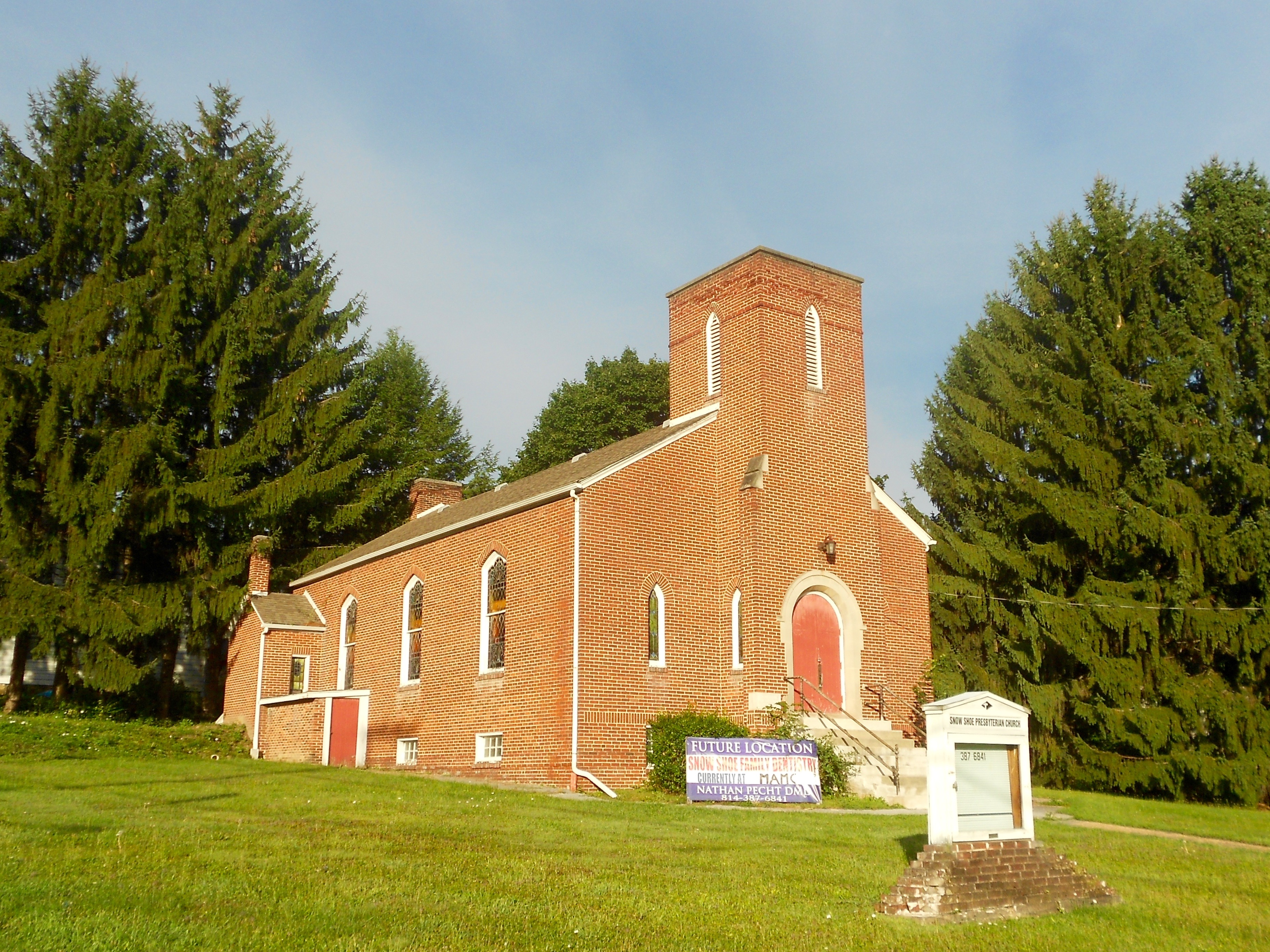 The former Presbyterian church in Snow Shoe, Centre County, Pennsylvania. If the sign in front is to be believed it will become a dentist's office.